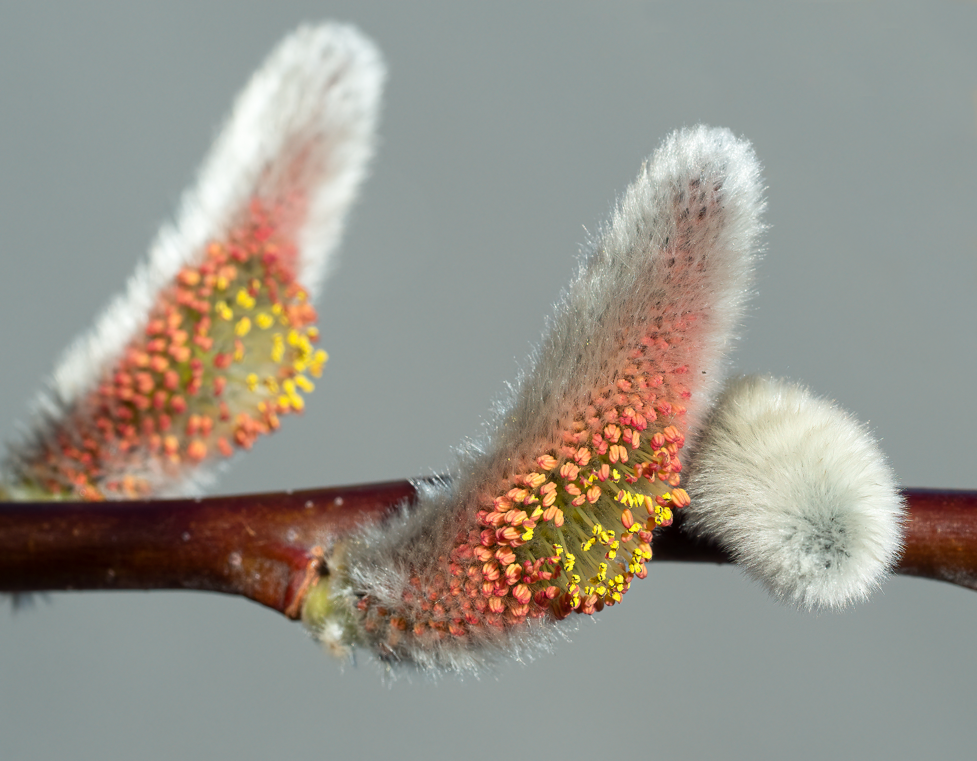 Catkin at the Brooklyn Botanic Garden, New York City, USA.